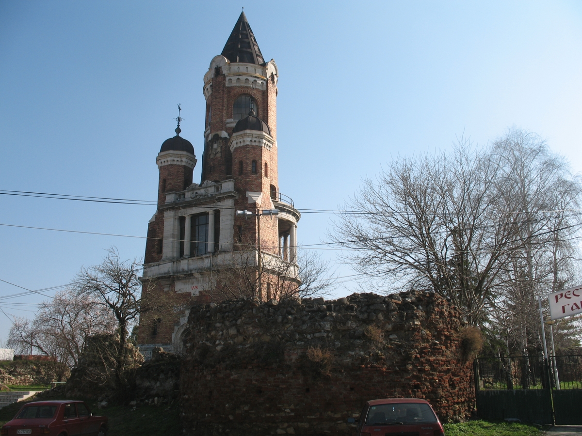 Remains of round tower in medieval fortress in Zemun (part of Belgrade) with Sibinjanin Janko Tower (Milenium Tower) in behind, Serbia.